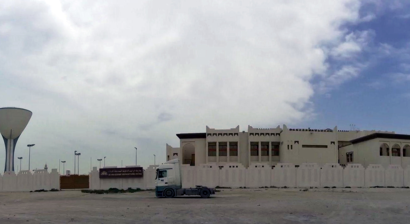 Umm Ayman Secondary Independent School for Girls near Al Samriya Street in Luaib district, Al Rayyan Municipality, Qatar.